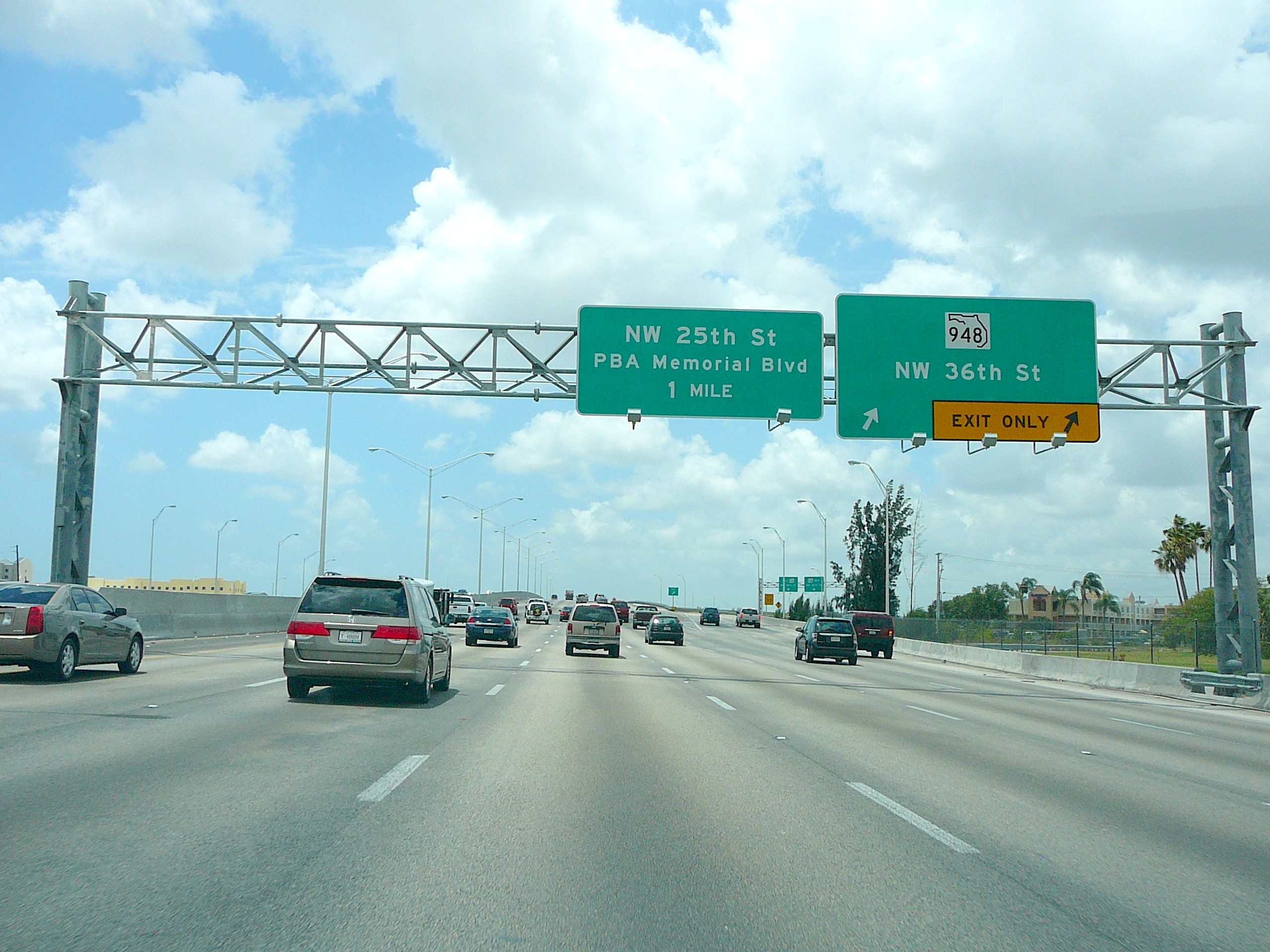 Digital photo taken by Marc Averette. View of the Palmetto Expressway in Greater Miami, Florida southbound near NW 36th St